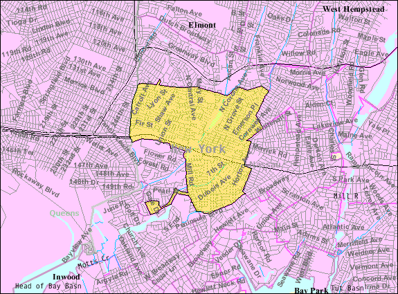 U.S. Census 2000 reference map for Valley Stream, New York